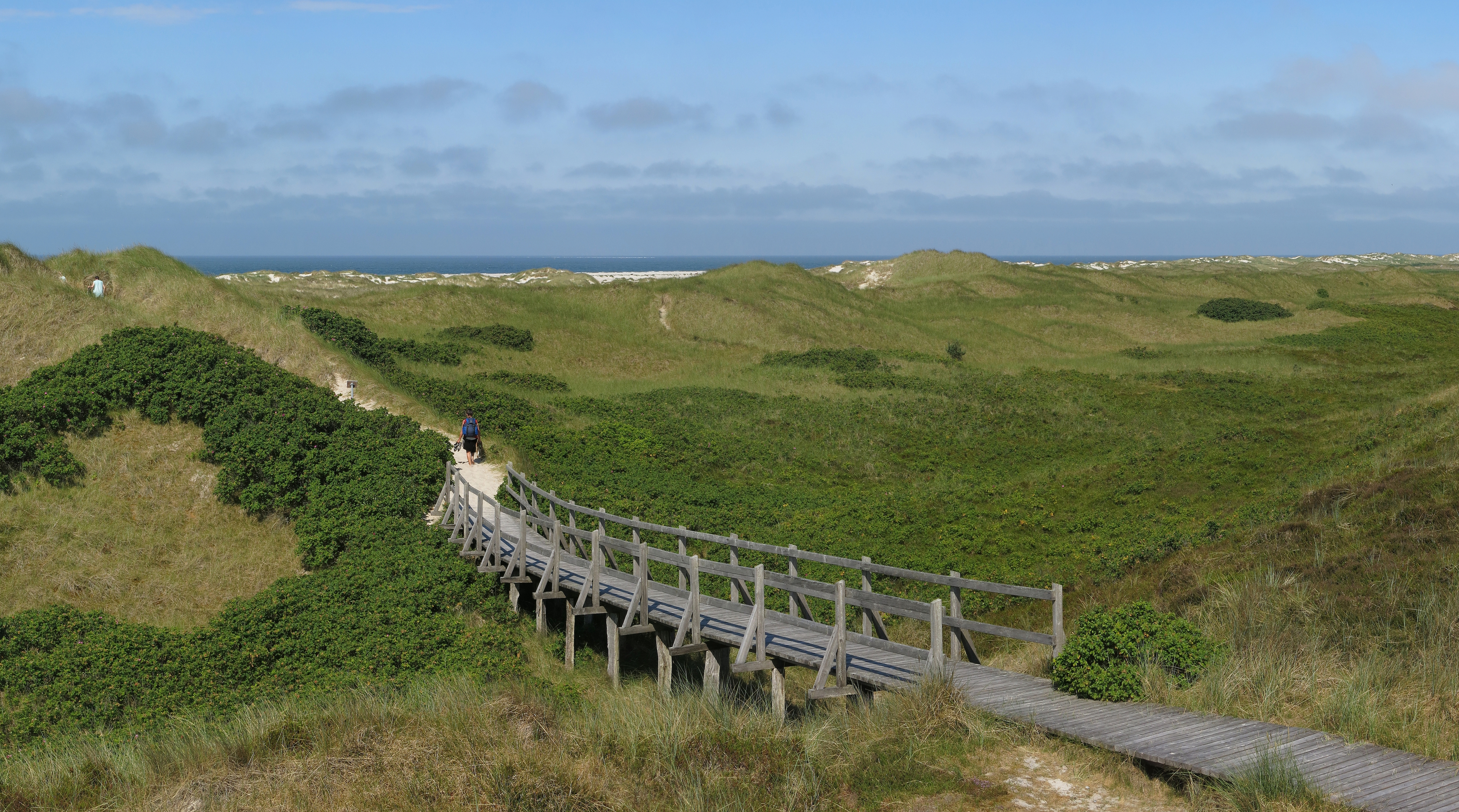 Way through the dunes of Amrum to the beach